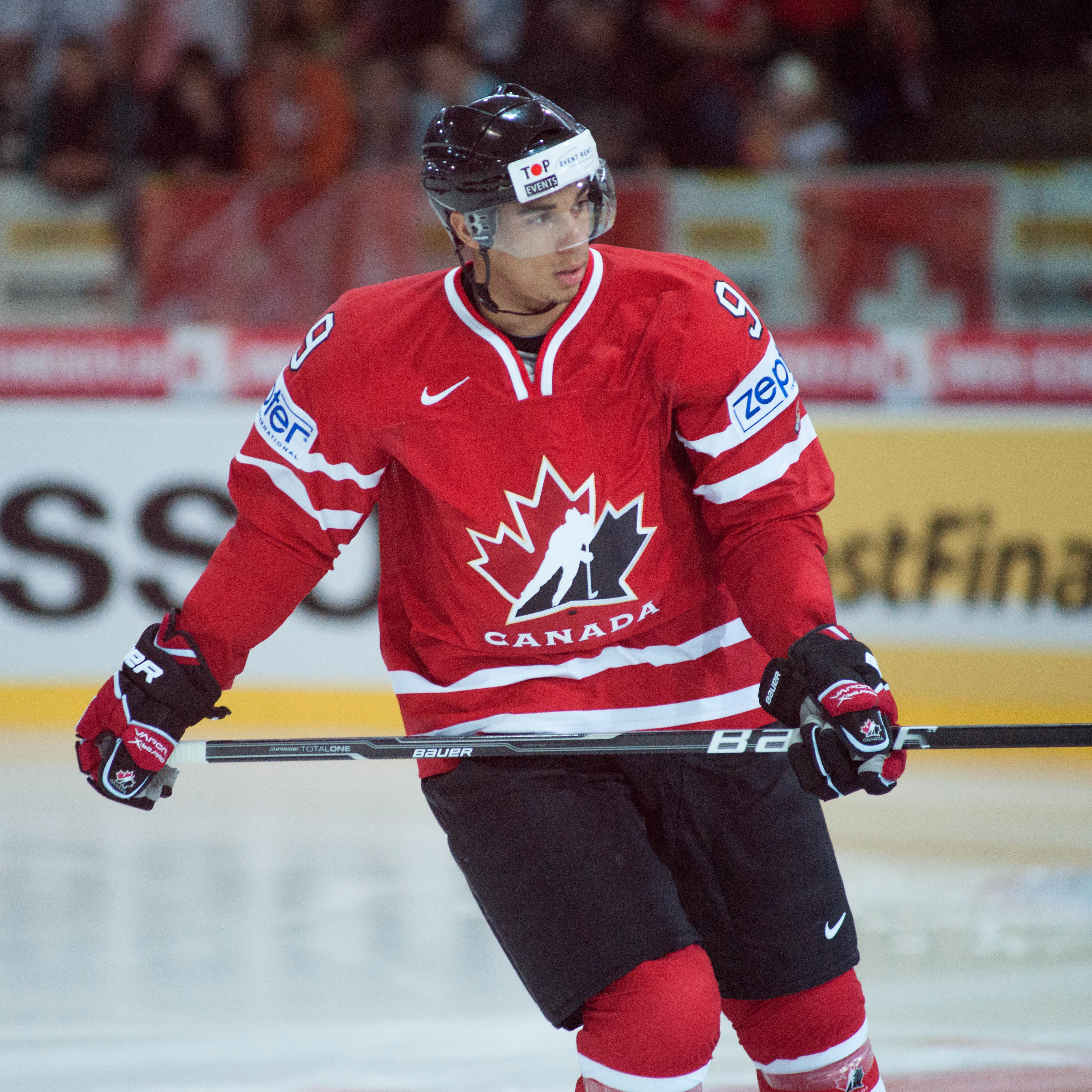 Switzerland vs. Canada, 29th April 2012